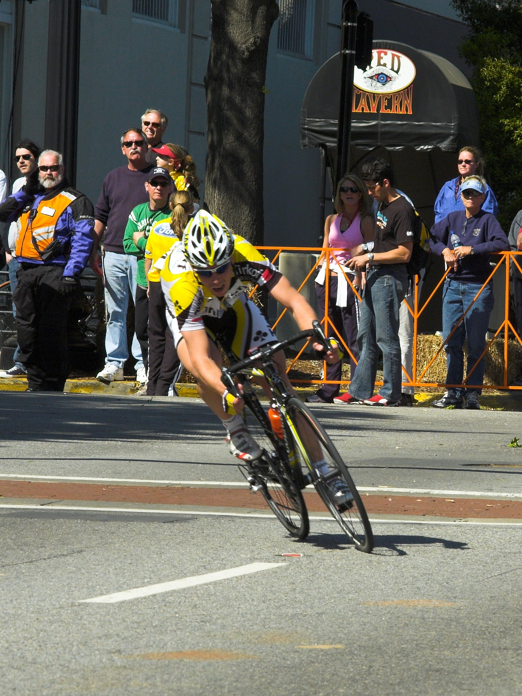 Daniele Contrini of Tinkoff Credit Systems as he completed the circuit 3 times before taking the stage win after a long breakaway.